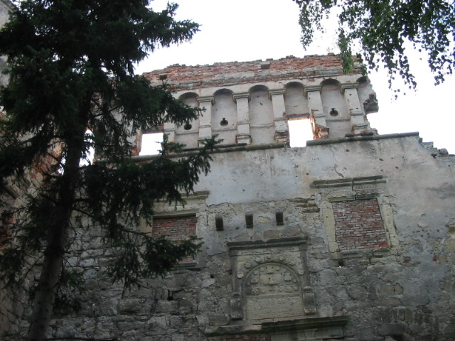 Castle in Berezhany, western Ukraine.